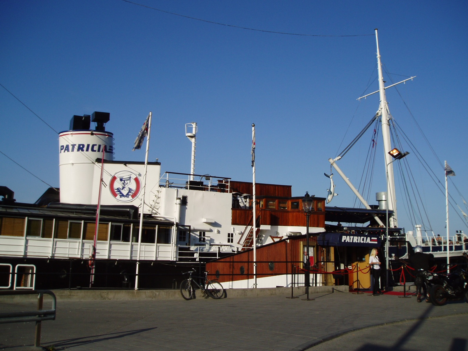 Party Boat "Lady Patricia", Stockholm, Sweden